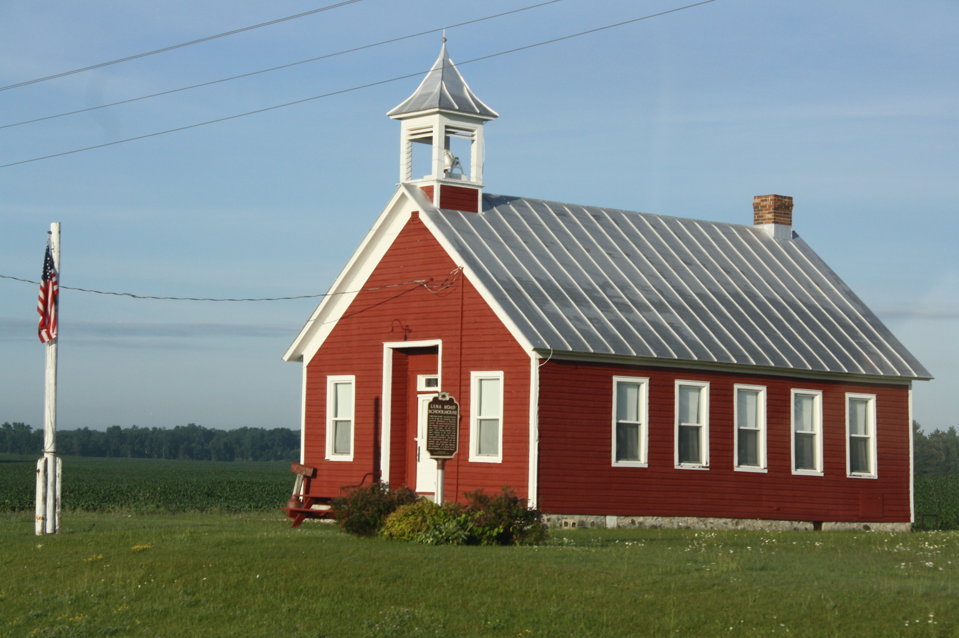 The Lena Road School near Lena, Wisconsin taken from U.S. Route 141. It is listed on the National Register of Historic Places.